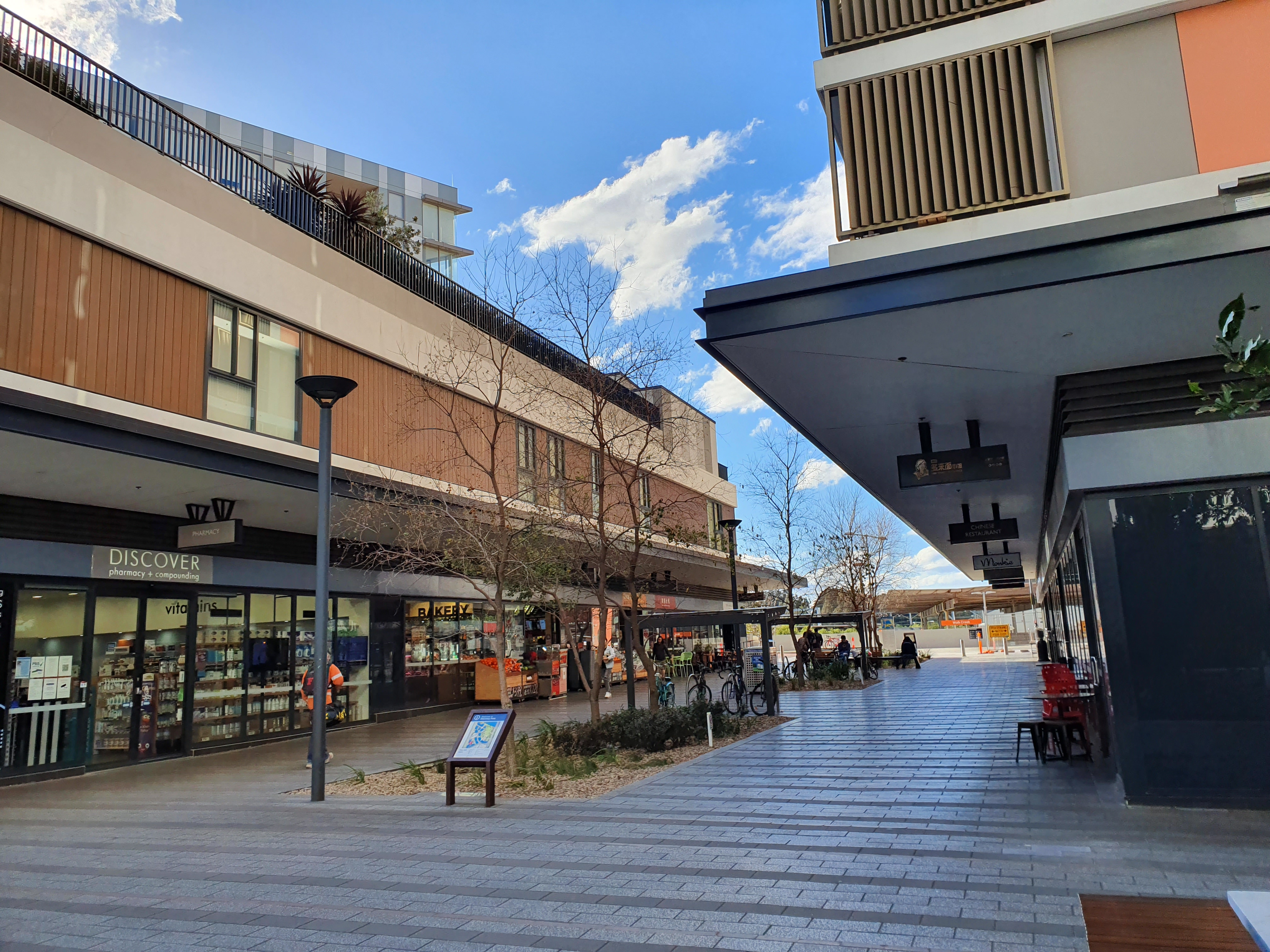 Shops in Wolli Creek, NSW's high density residential/commercial area, as of 2019